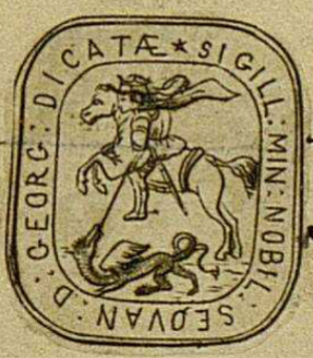 picture of the small seal of St-George fraternity